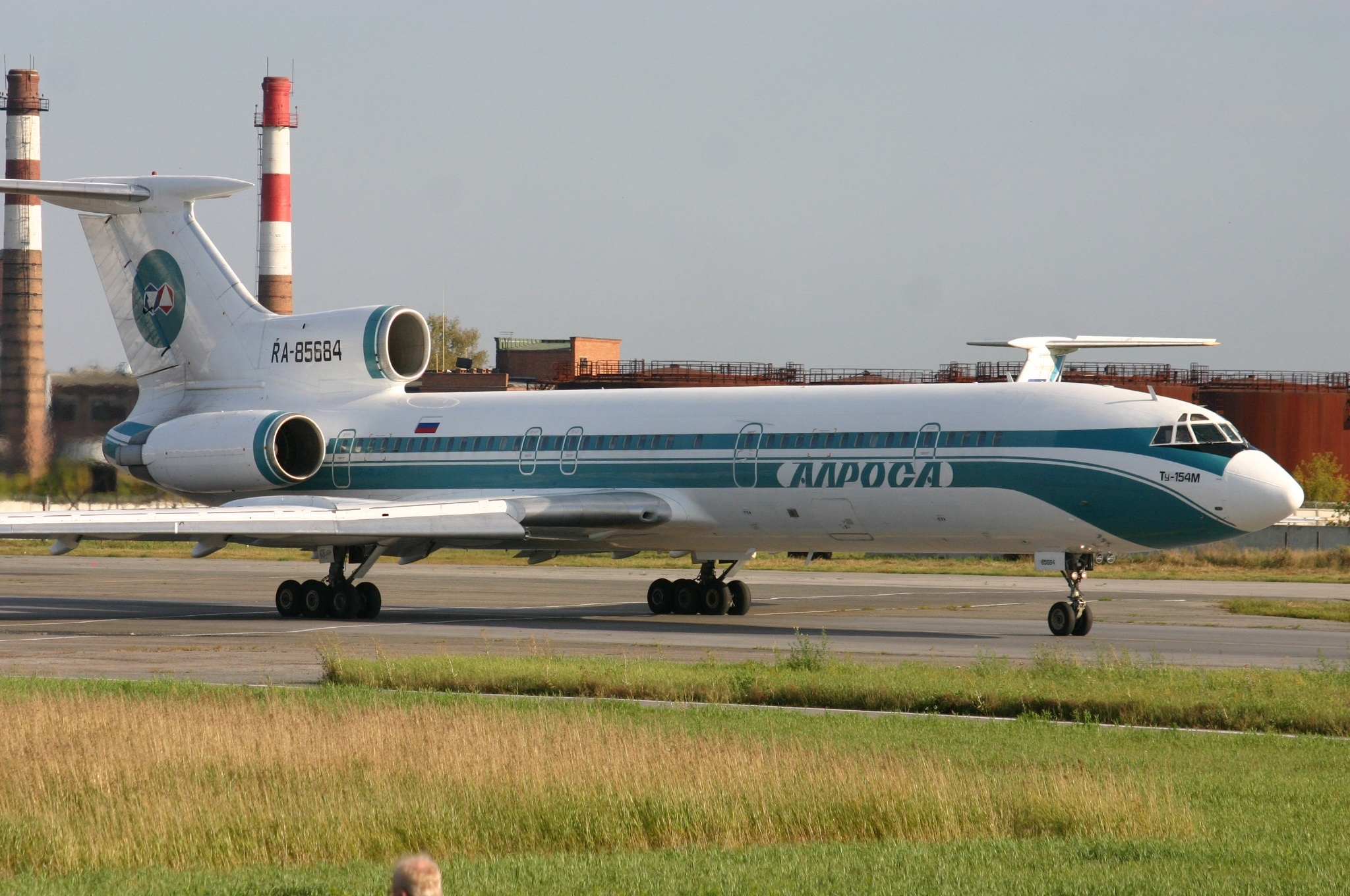 At Novosibirsk Tolmachevo